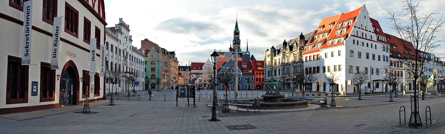 This image shows the main market (Hauptmarkt) of Zwickau (Saxony, Germany). It has been stitched together using three single pictures.